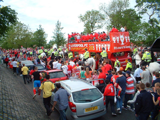 Queens Drive near flyover at Broadgreen. Procession sets of for tour of the city.